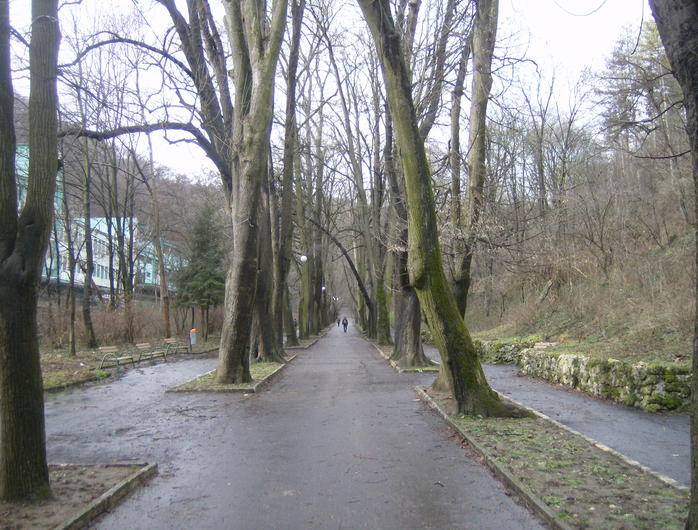 Park